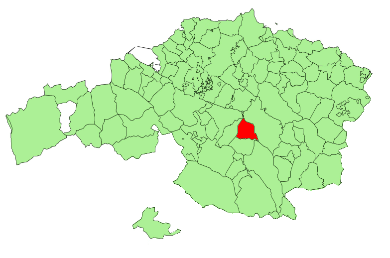 Lemoa municipality in the province of Biscay